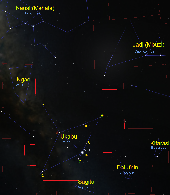 Aquila constellation as seen from Tanzania, Swahili labeled